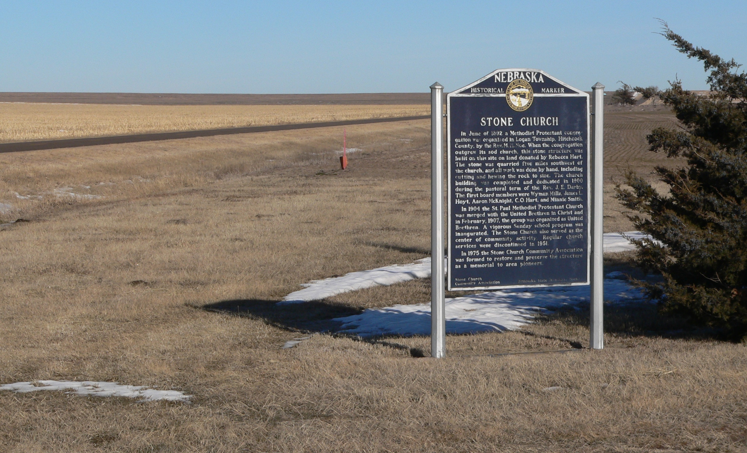 Historical marker at St. Paul's Methodist Protestant Church, aka Stone Church; located south of Culbertson in Hitchcock County, Nebraska. The building was constructed in 1900, and is listed in the National Register of Historic Places. Regular religious services are no longer held at the church.